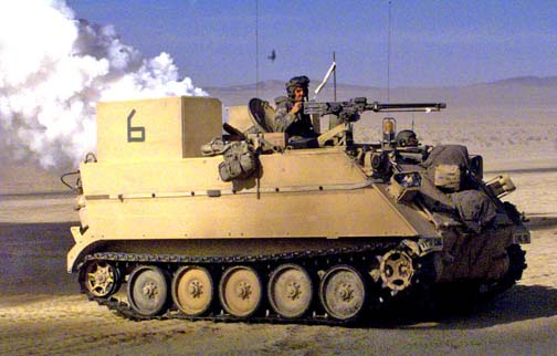 The M1059/A2 or A3 smoke generator consists of an M113A2 or A3 APC with two M54 smoke generators. This track belongs to the 31st Chemical Company (Army), Fort Irwin, CA, 19 Mar 1997.